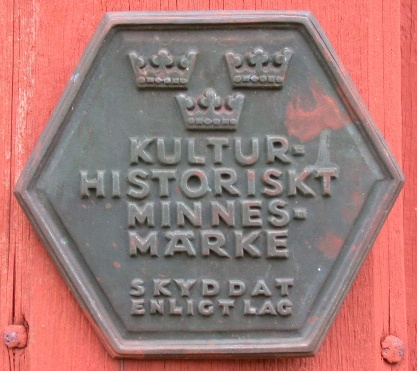 Swedish sign for ancient monuments (cultural heritage). Photo by Riggwelter, May 20, 2006.